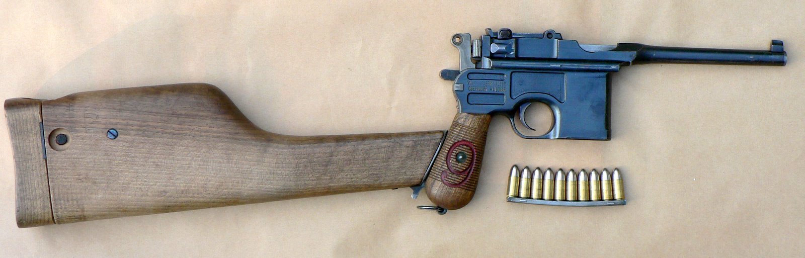 Mauser C96 M1916 "Red 9"